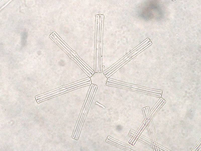 This work is free and may be used by anyone for any purpose. If you wish to use this content, you do not need to request permission as long as you follow any licensing requirements mentioned on this page.